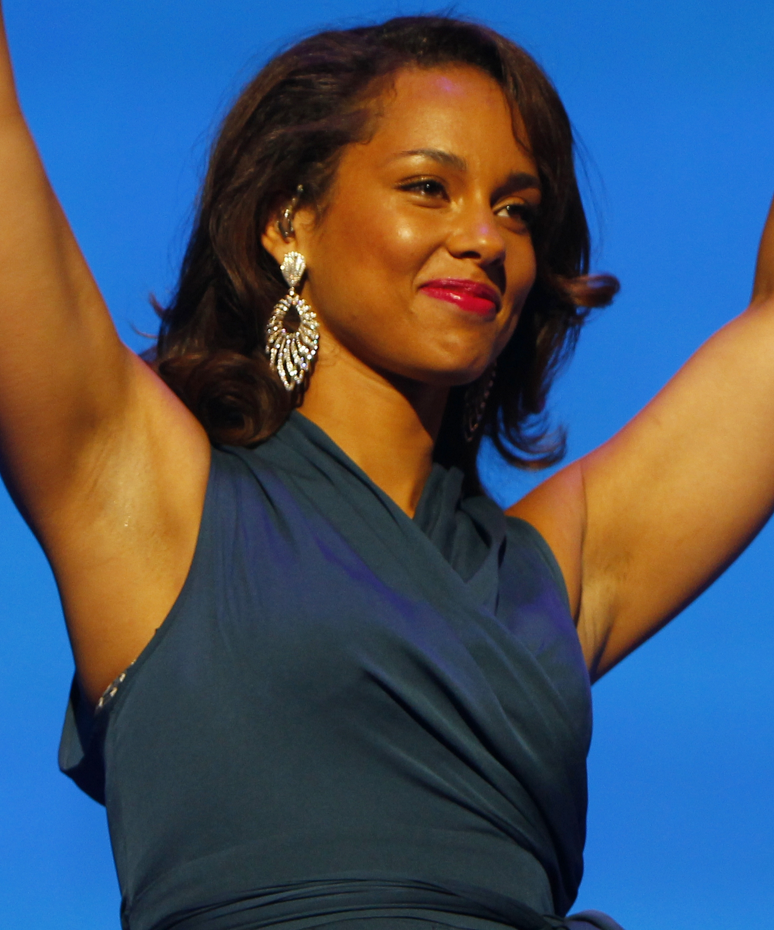 Alicia Keys at the Walmart Shareholders Meeting 2011.